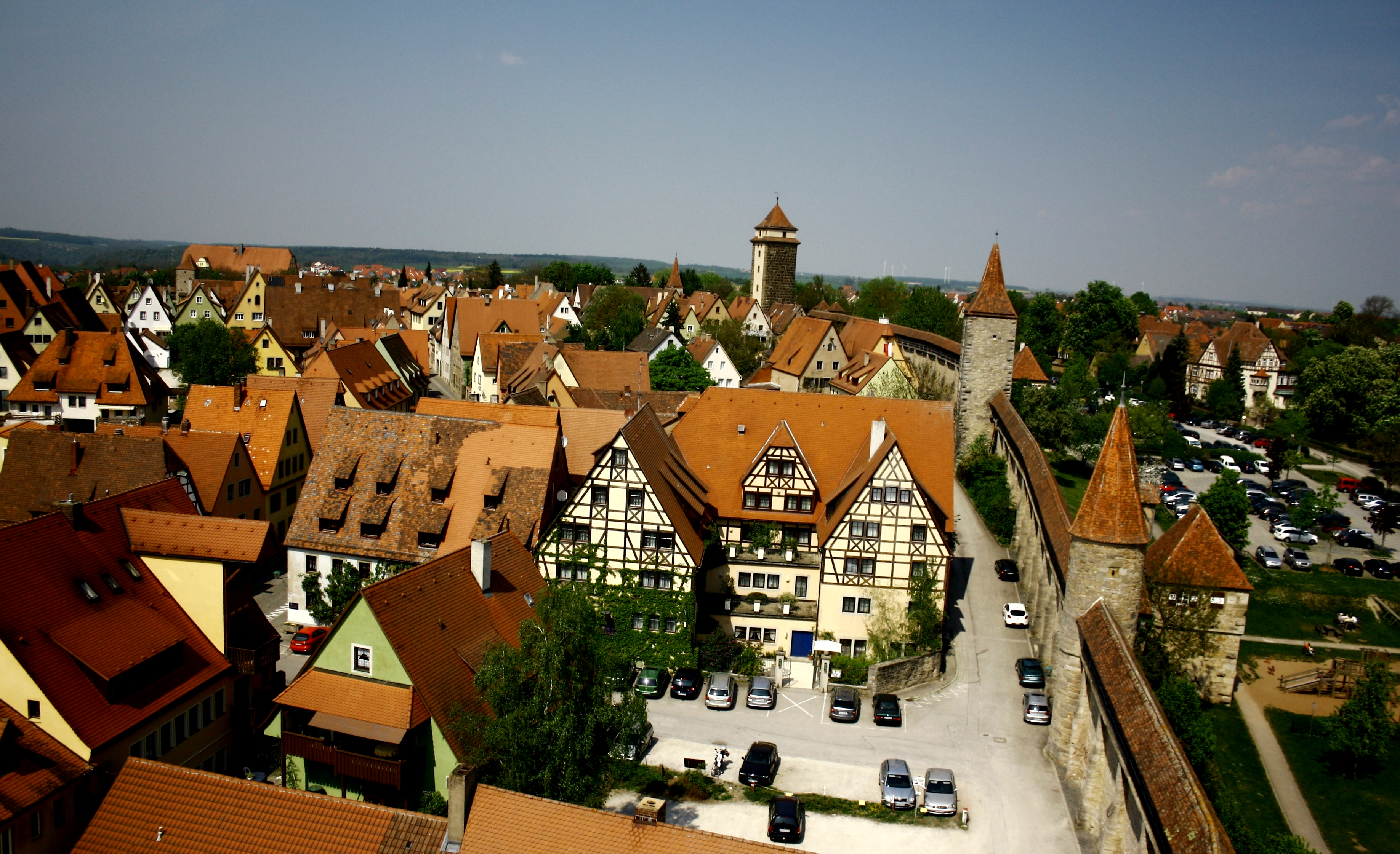 Rothenburg city as seen from top of the Roeder tower to north. The towers: Weiberturm, Thomasturm, Würzbuger Tor.